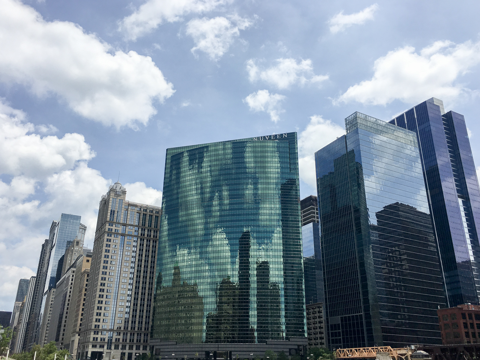 DIA Chicago 2017